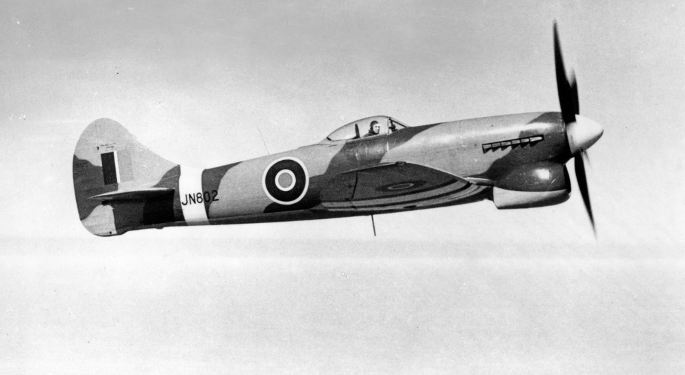 PictionID:42252776 - Title:Hawker Tempest V Hawker Tempest V JN802 - Catalog:15_003284 - Filename:15_003284.tif - ---- Image from the Charles Daniels Photo Collection album "English Aircraft"----PLEASE TAG this image with any information you know about it, so that we can permanently store this data with the original image file in our Digital Asset Management System.----SOURCE INSTITUTION: San Diego Air and Space Museum Archive